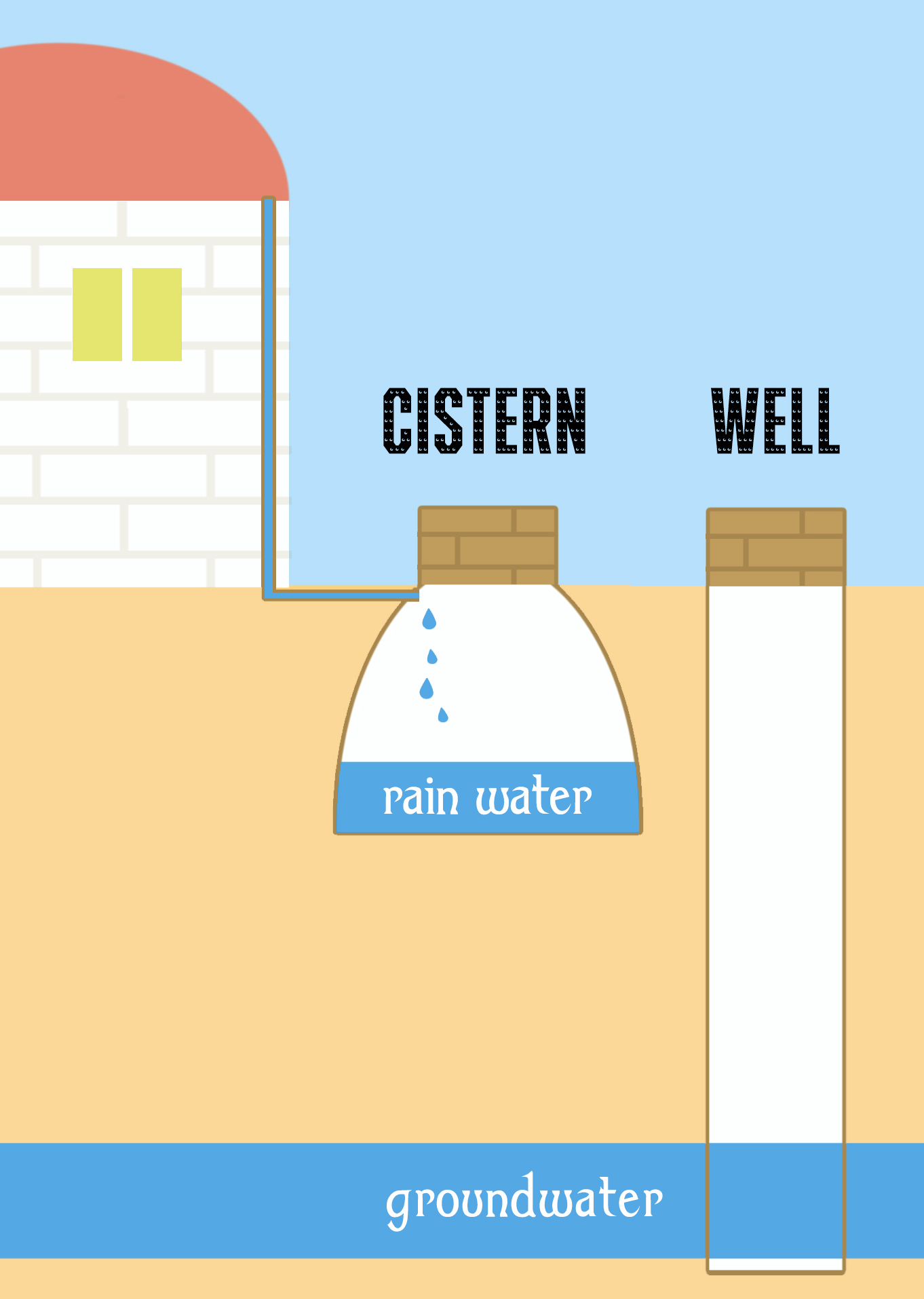 Difference between hole and bar